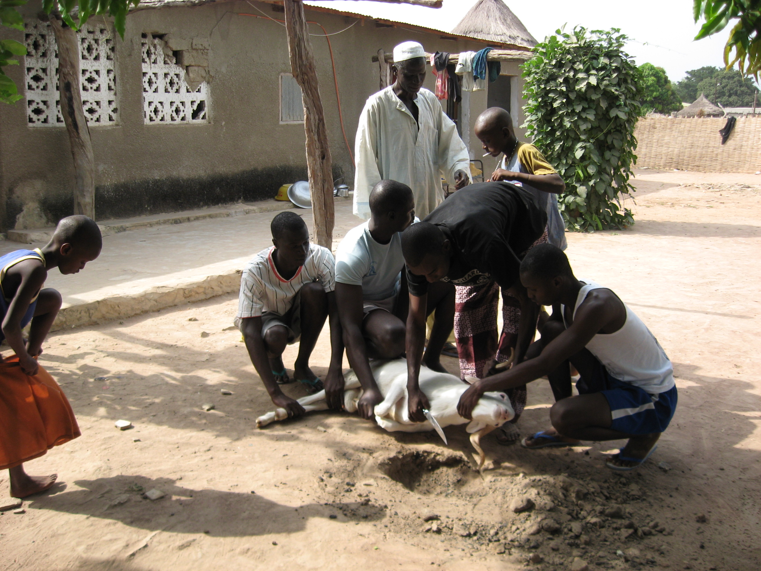 Tabaski in Kounkane, Upper Casamance (Senegal)